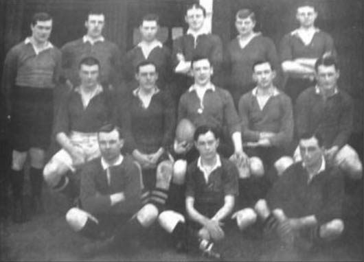 The Lomas AC rugby union team that won its second Torneo de la URBA championship in 1913.